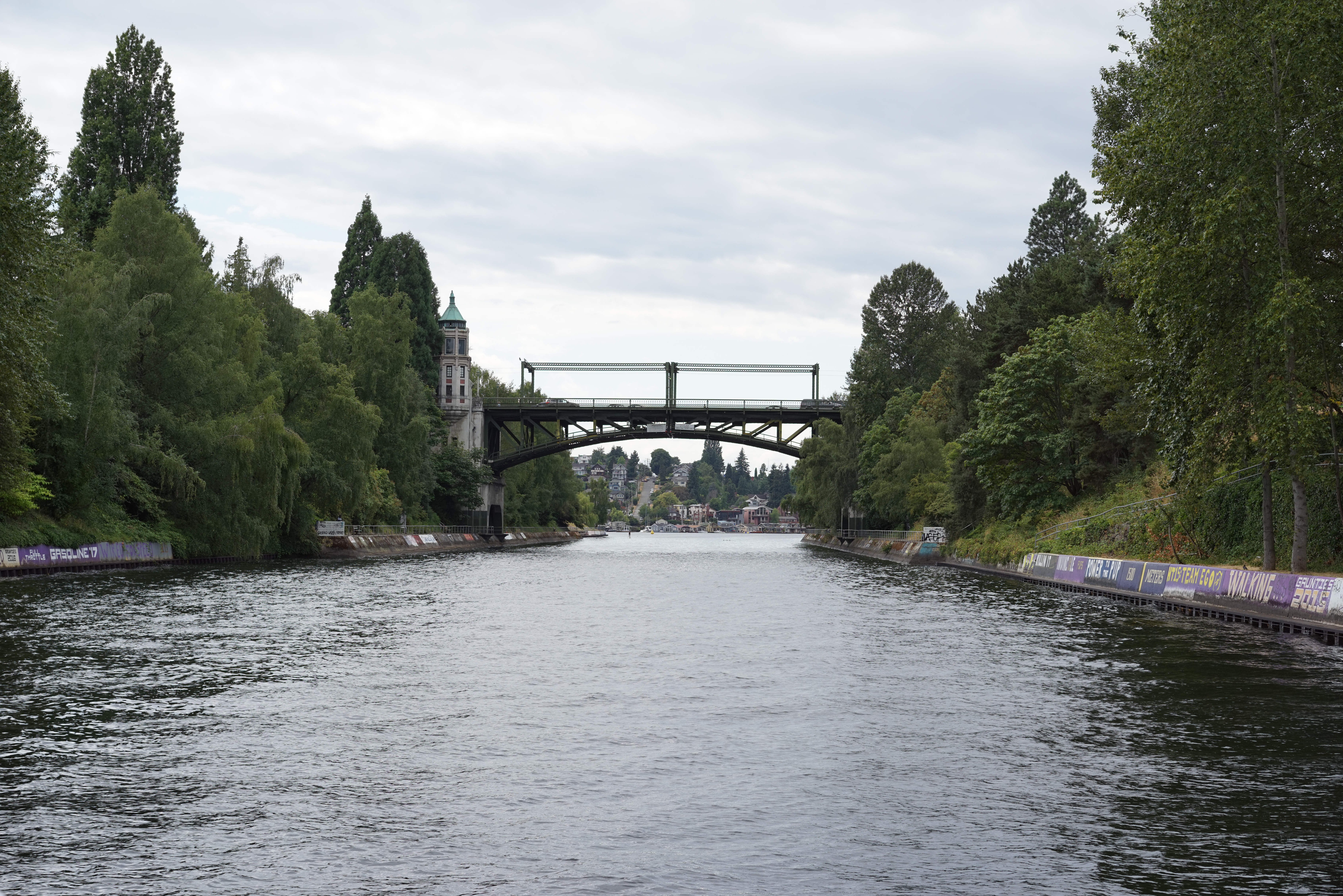 View of Montlake Bridge from a boat approaching it from the east.